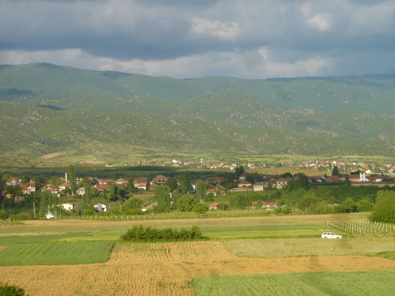 village of Dobrošinci, in Vasilevo Municipality, near Strumica, Macedonia